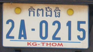 License plate of Cambodia